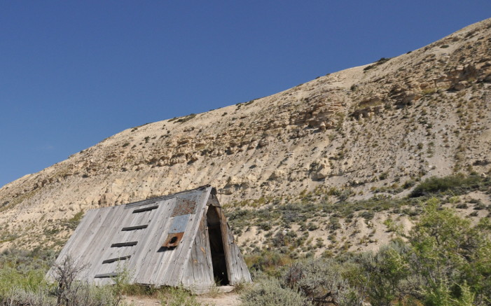 Haddenham Cabin, Fossil Butte National Monument.